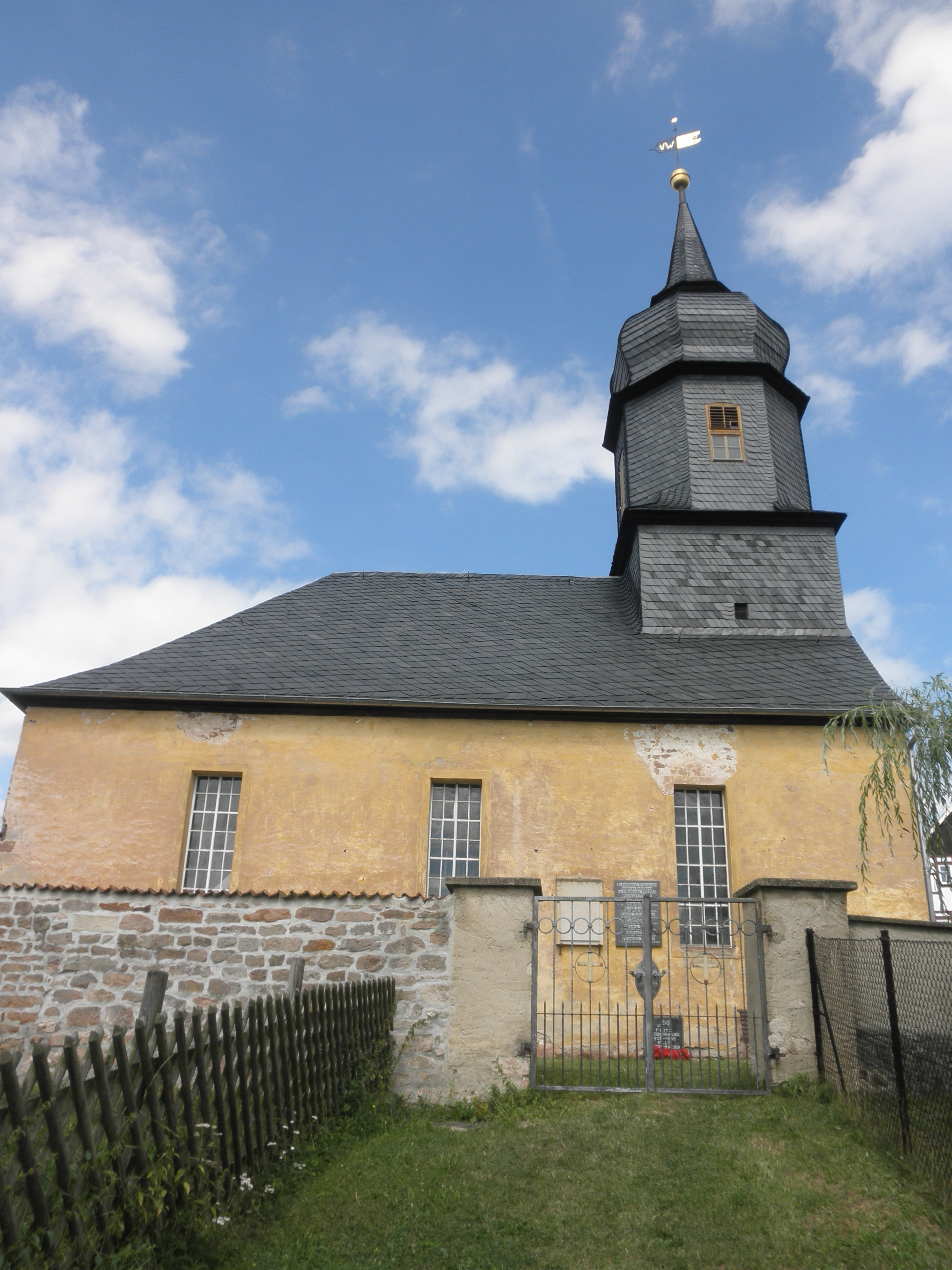 Church in Rosendorf (Thüringen) in Thuringia